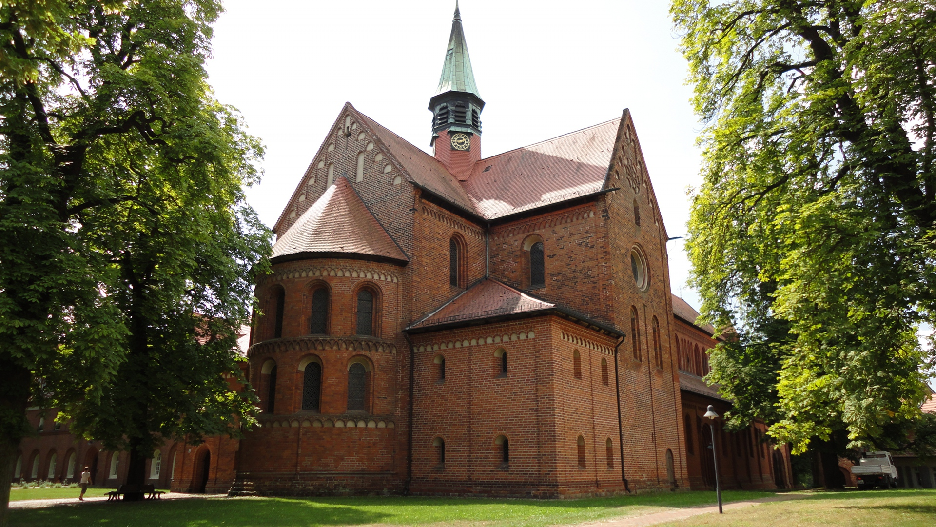 Rear facades of St. Marien church — at the Klosters Lehnin (Lehnin abbey). A German Brick Gothic era monastary in Landkreis Potsdam-Mittelmark, Brandenburg.